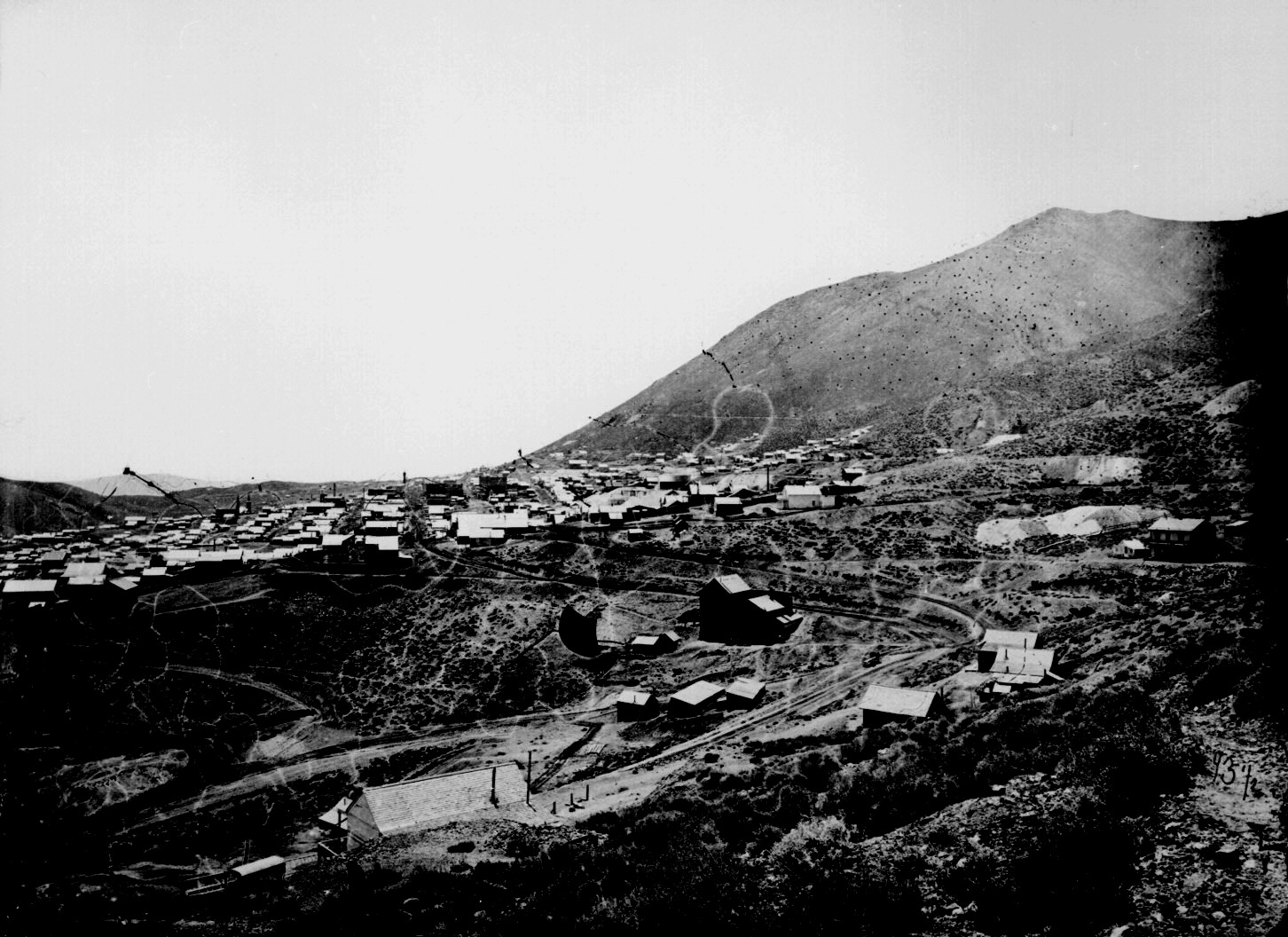 View of Virginia City, Nevada, from a nearby hillside